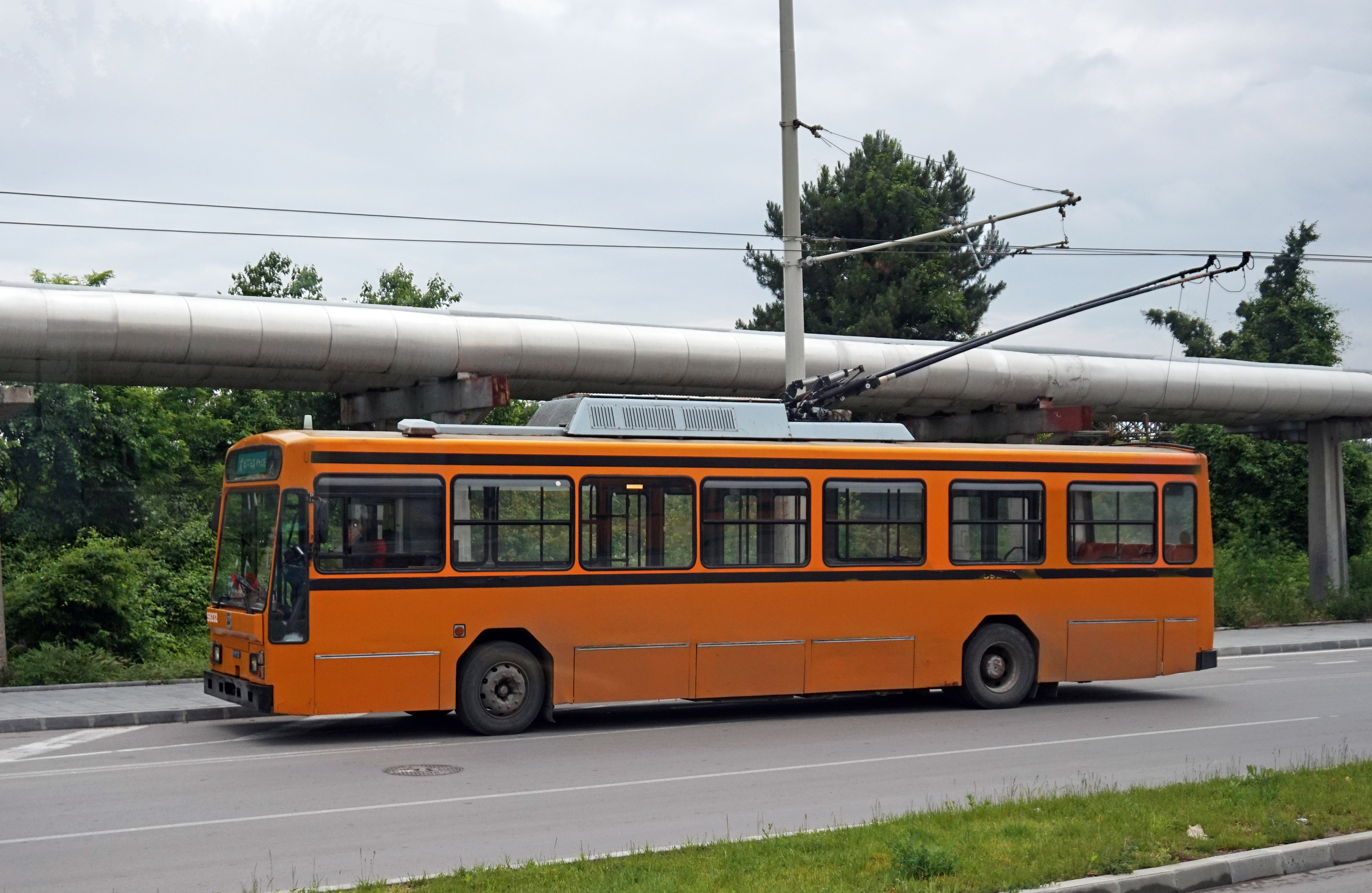 A trolleybus in Rousse.This photograph was taken with a Sony ILCE-5000